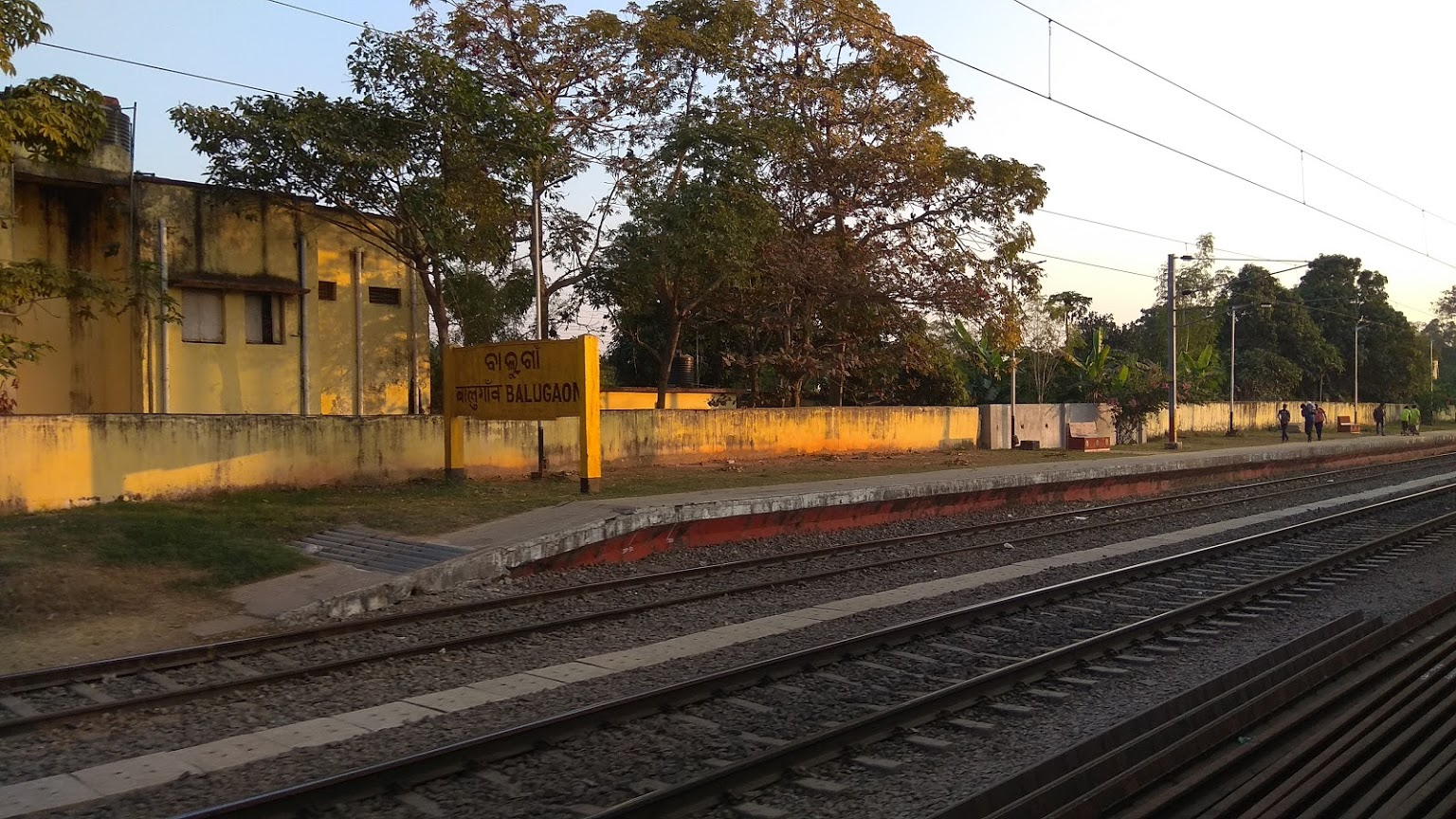 This is the Picture of Balugaon railway station